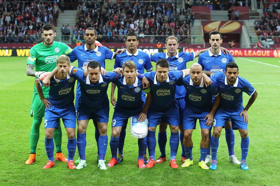 2015 UEFA Europa League Final